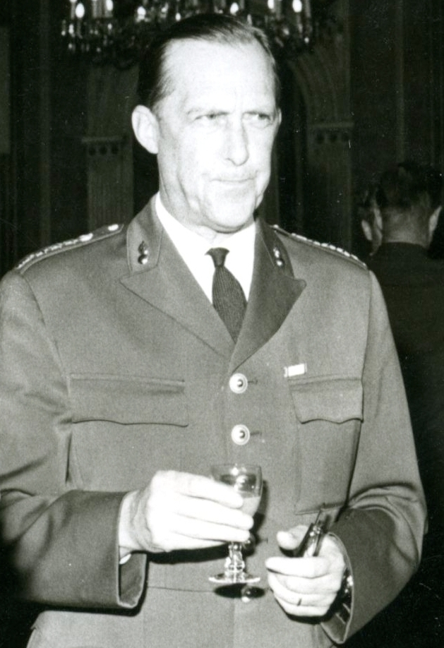 Colonel Sten-Olle Tegmo, regimental commander of Småland Artillery Regiment (A 6), at the banquet for the 1967 World Modern Pentathlon Championships in Jönköping, Sweden.